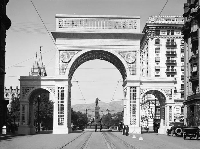 No-Ni-Shee Arch, Main Street, SLC UT, 1916. Commercial photo taken on assignment, published circa 1916.